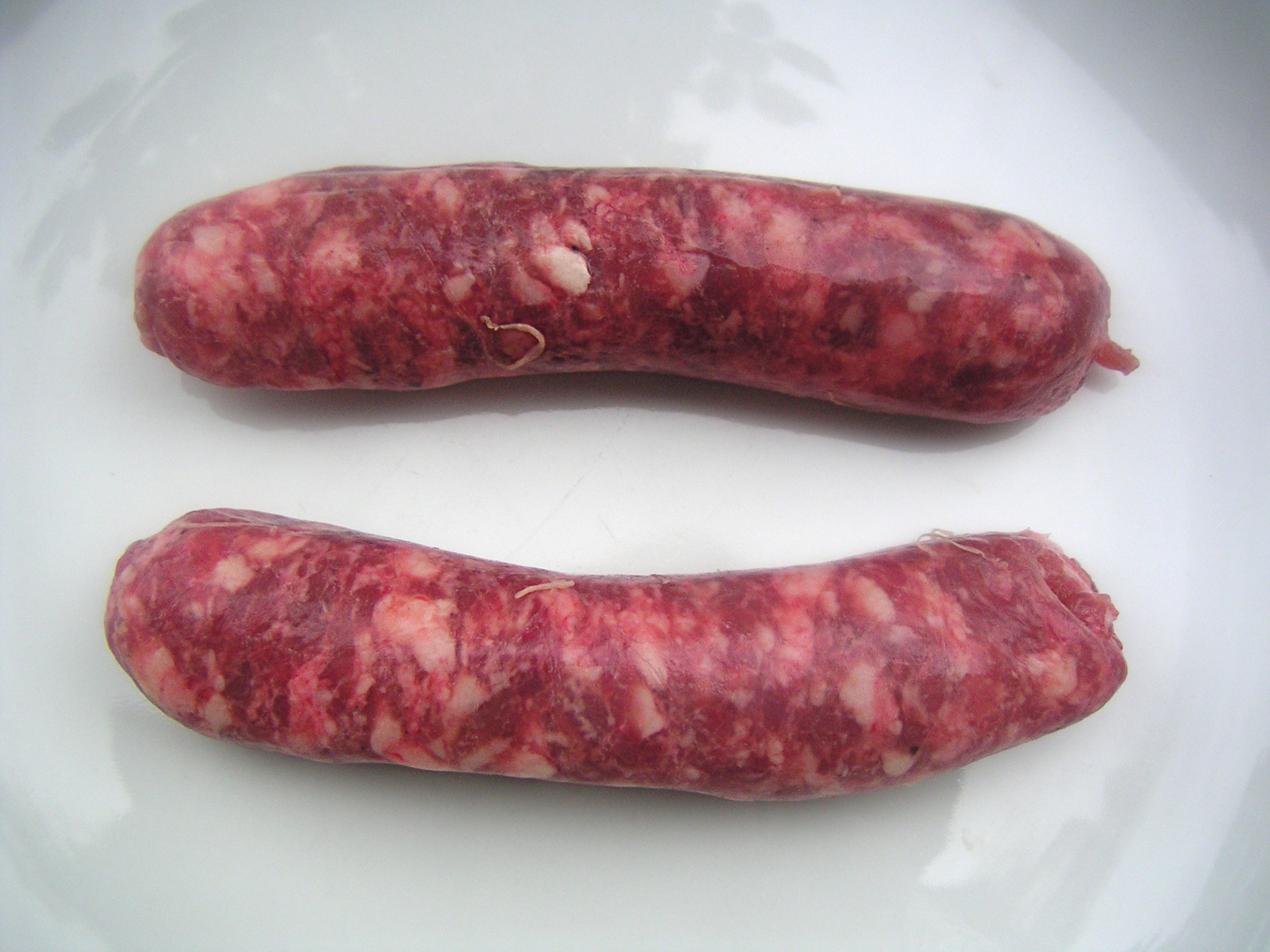 A pair of raw Toulouse sausages (in French, saucisses de Toulouse), very similar to the Catalan botifarres.